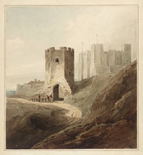 Pencil and watercolour on paper, 'Dover Castle'